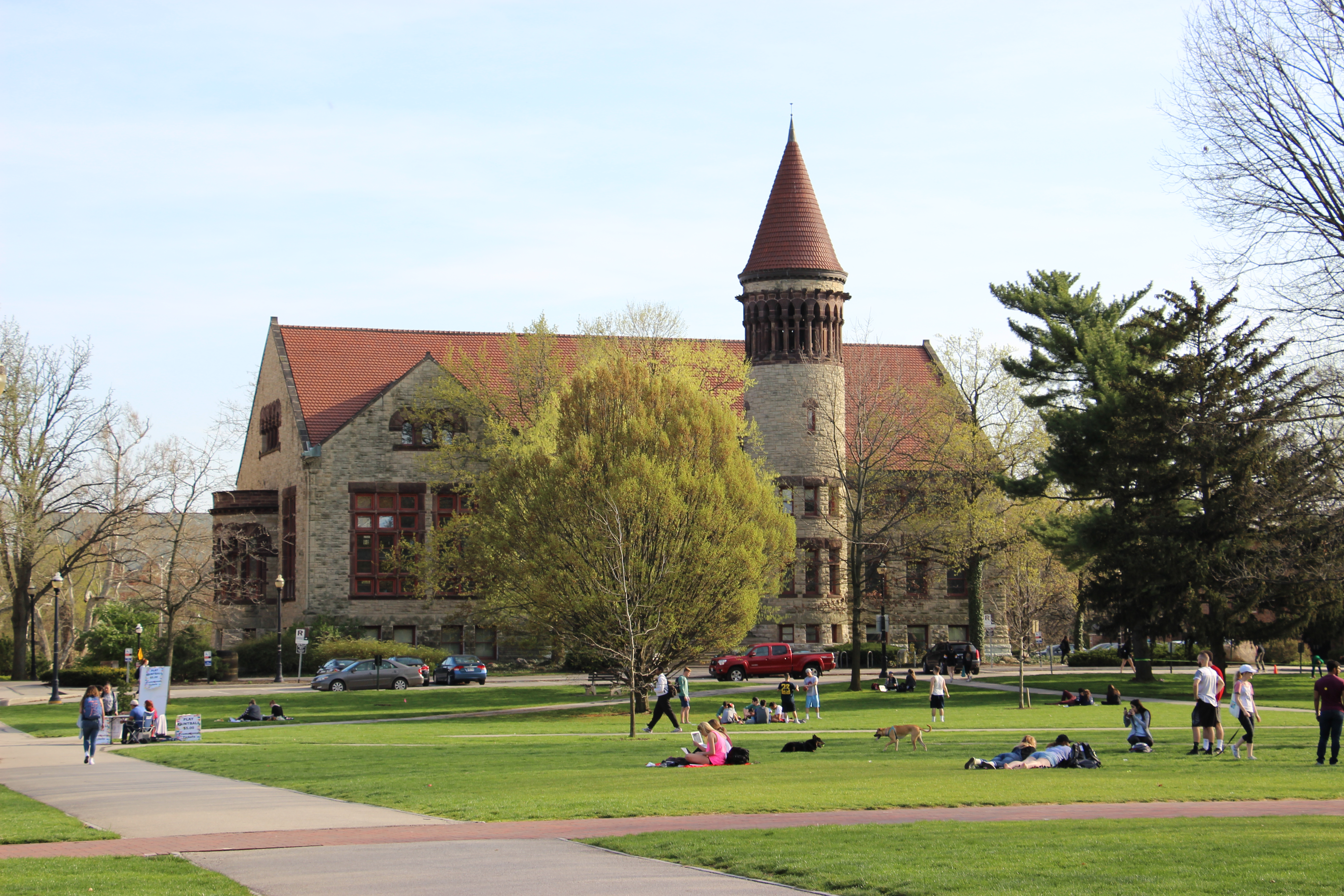 Orton Hall as viewed from the north wide of the Oval at the Ohio State University.